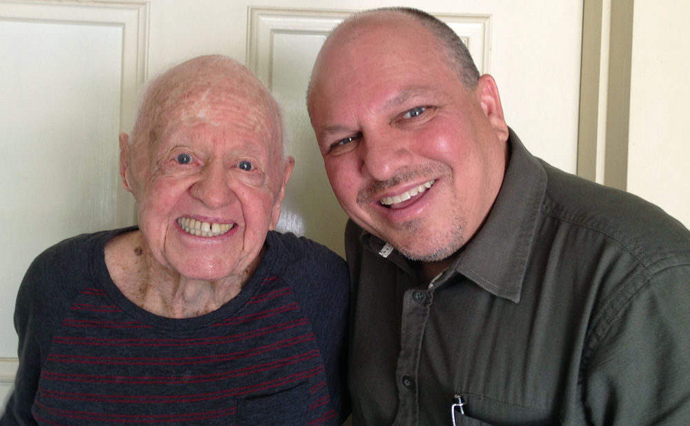 Lorenzo Tartamella with actor Mickey Rooney. July 2013 in Studio City.